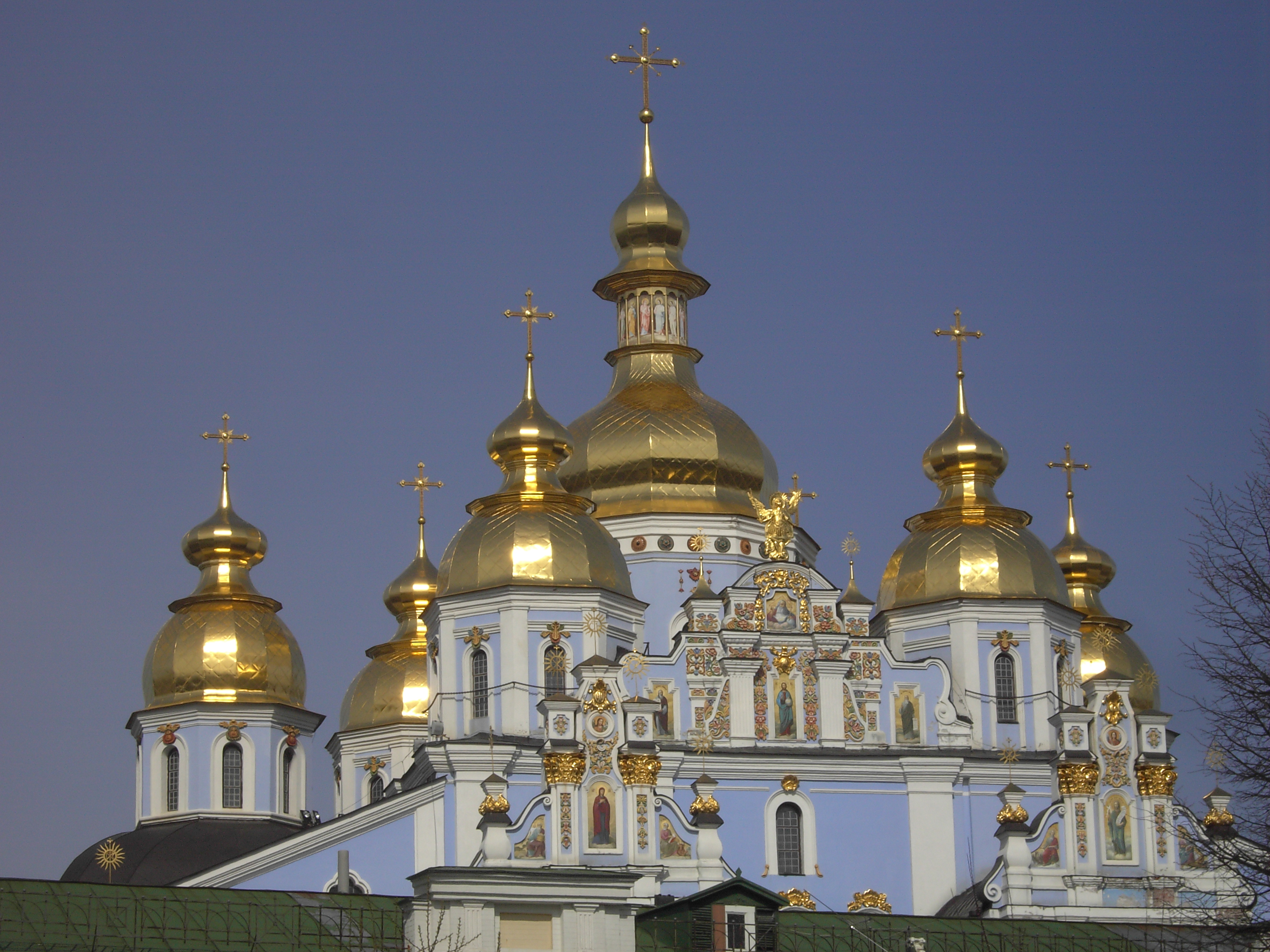 St.Michael church in Kiev